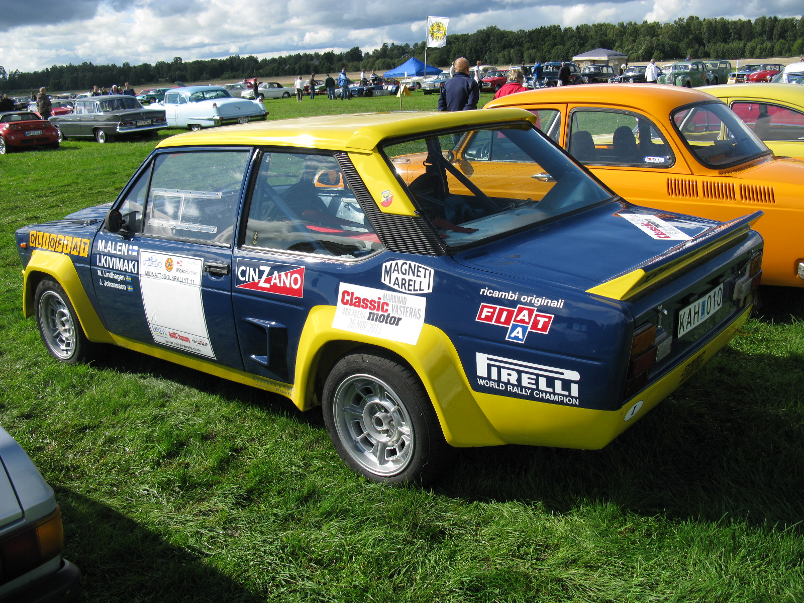 Fiat 131 Rally Replica